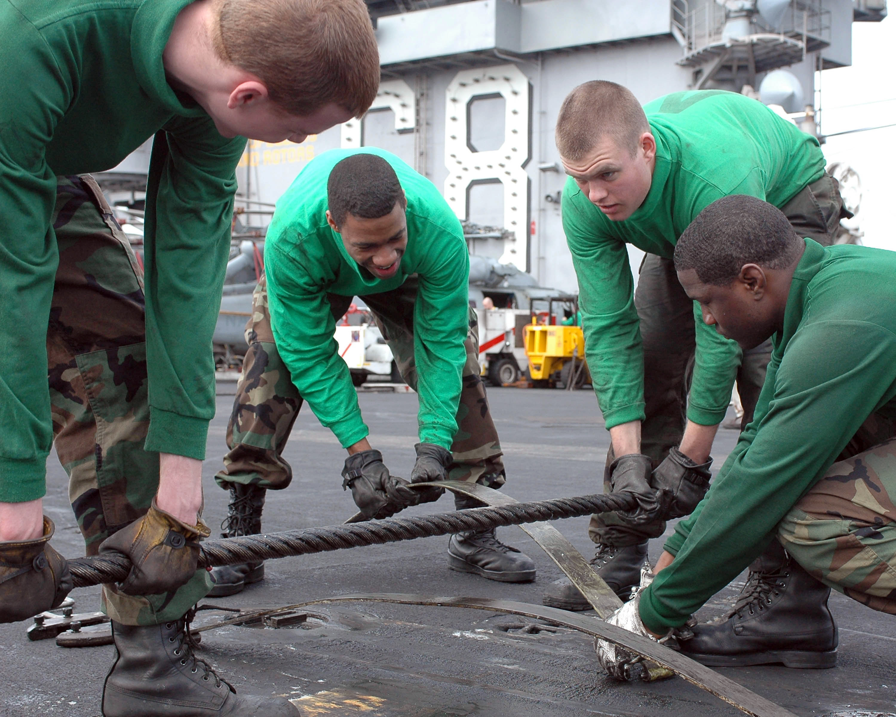 Arresting Gear crew changes a leaf spring under a cross deck pendant aboard aircraft carrier USS Nimitz. The leaf spring elevates the wire so that it can more easily be engaged by the landing aircraft tailhook. Original caption: "U.S. Sailors position a wire supports under an arresting wire aboard the aircraft carrier USS Nimitz (CVN 68) in the Pacific Ocean March 29. The wire support lifts the arresting wire off the deck enabling an aircraft's tail hooks to catch it during landing. The Nimitz is deployed with the U.S. 7th Fleet and is conducting combined training exercises with the USS Kitty Hawk (CV 63) Carrier Strike Group."